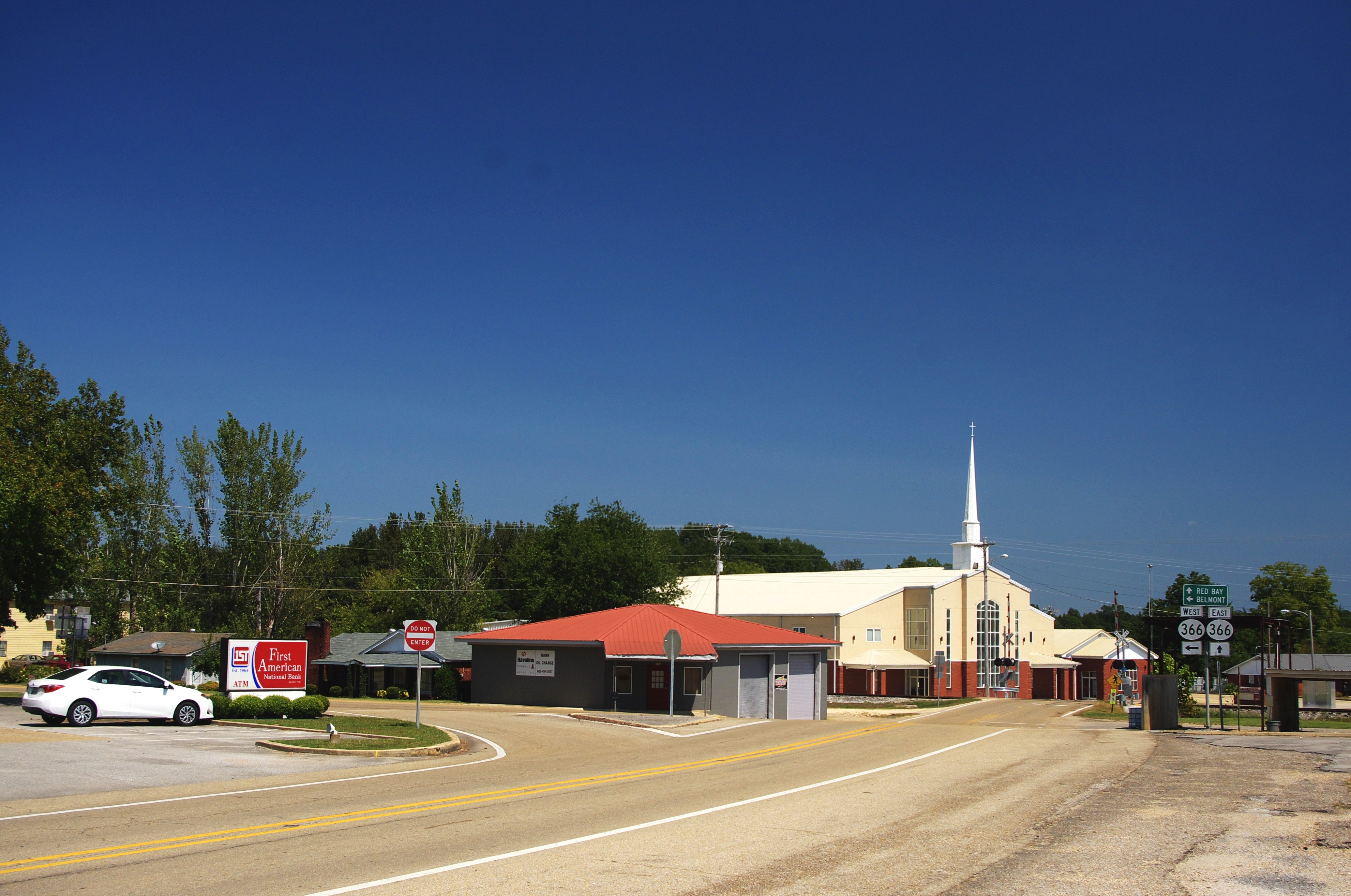 View northeast across the bend in Mississippi Highway 366 in Golden, Mississippi, United States.